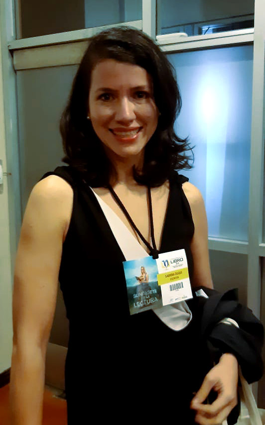 Sabrina Duque In the 2019 Guayaquil International Book Fair